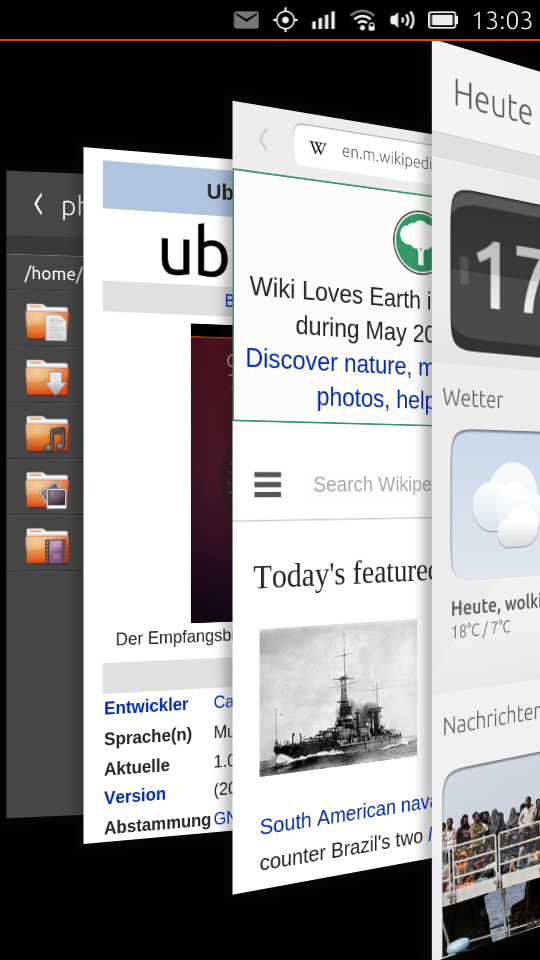 Ubuntu Touch switch apps